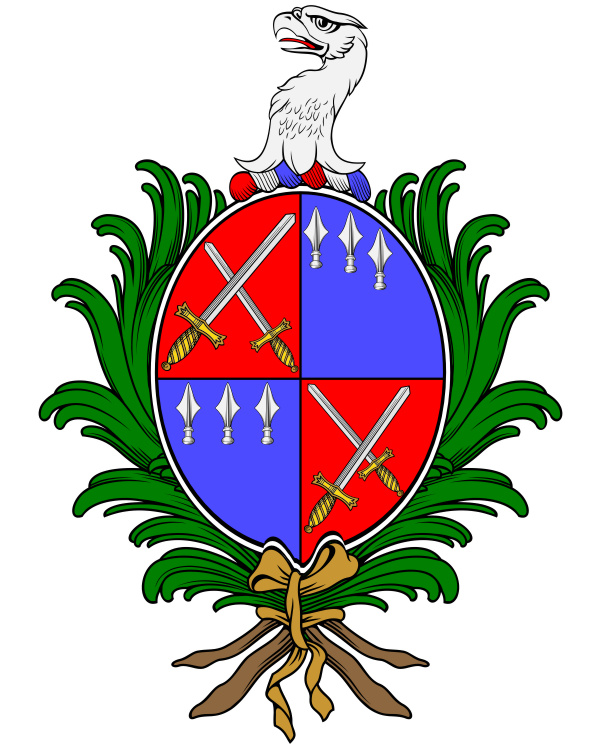 An original drawing of the O'Higgins of Montoge Coat of Arms by Sir James Terry who was Herald to King James II in St. Germaine in France and collected the existing coats of arms of Irish noble families who had fled Ireland into exile with King James.